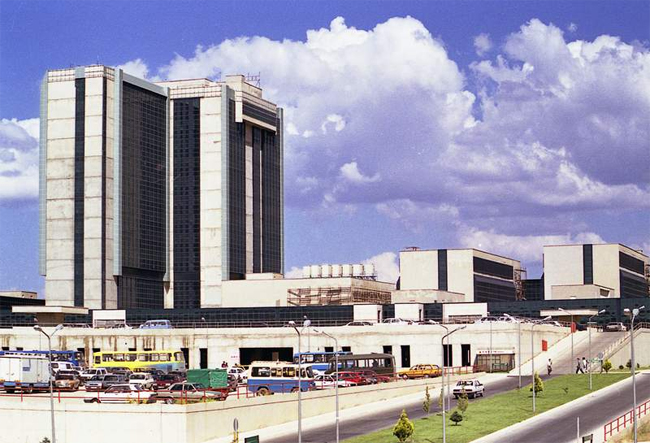 Turgut Ozal Medical Center, Inonu University Center Campus